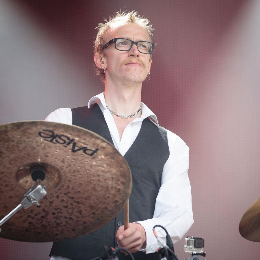 Kenneth Kapstad in a concert with Stein Torleif Bjella at the main stage at Grefsenkollen. The concert was part of Over Oslo and took place on 20. June 2018 in Oslo. Lineup:Stein Torleif Bjella (vocal and guitar)Christer Knutsen (piano)Geir Sundstøl (guitar)Unidentified (bass guitar and double bass)Kenneth Kapstad (drums)